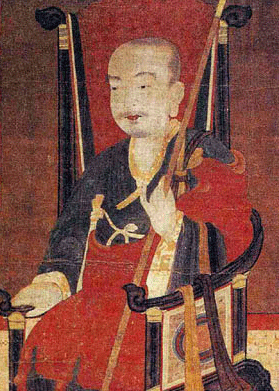 Portrait of Korean seon Master Naong Hyegeun